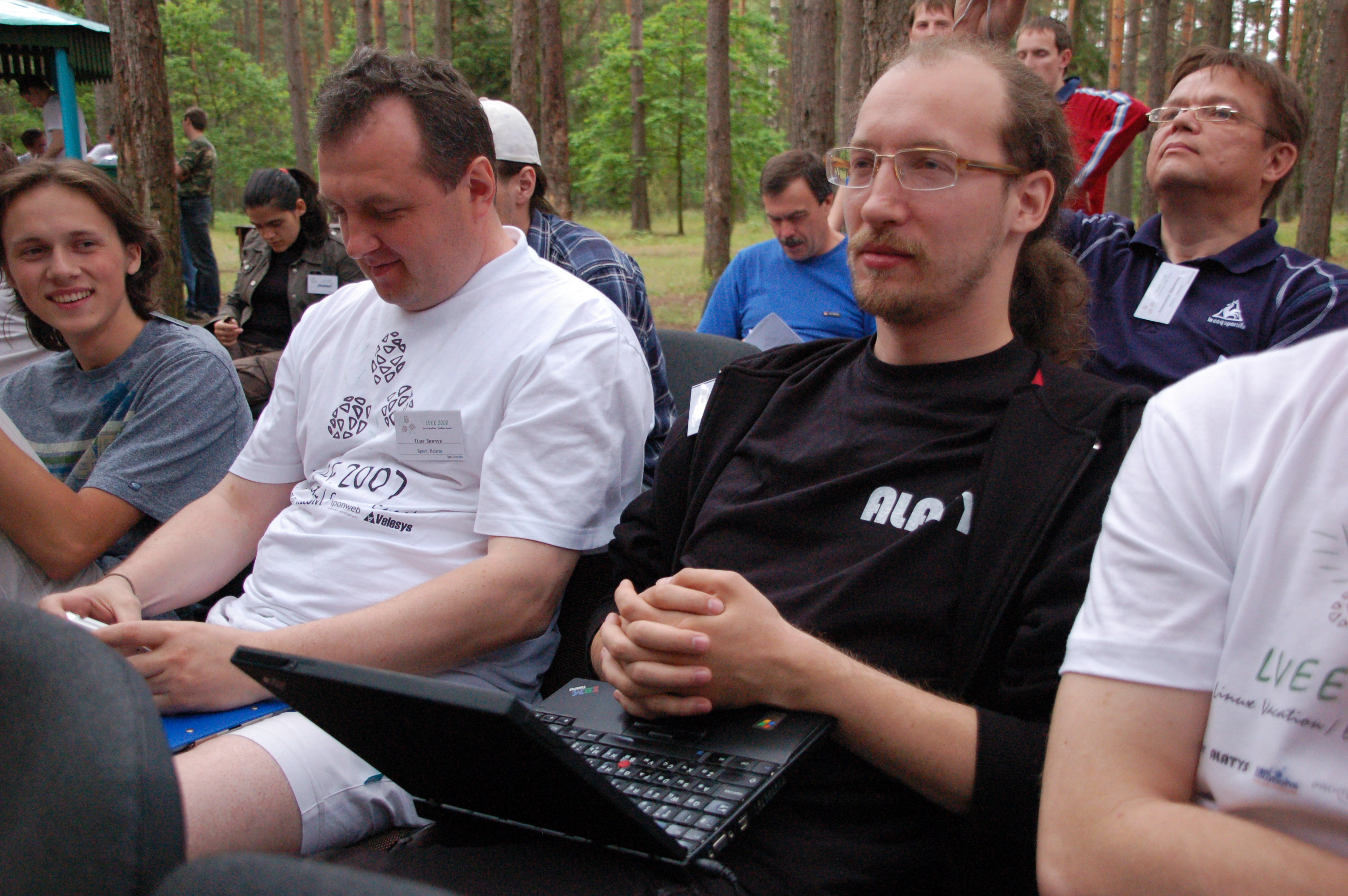 Participants of Linux Vacation / Eastern Europe 2008 conference listening to a speaker (3rd day of the conference).